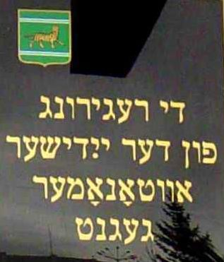 Yiddish inscription. Sign on the Jewish Autonomous Oblast government headquarters, Russia.